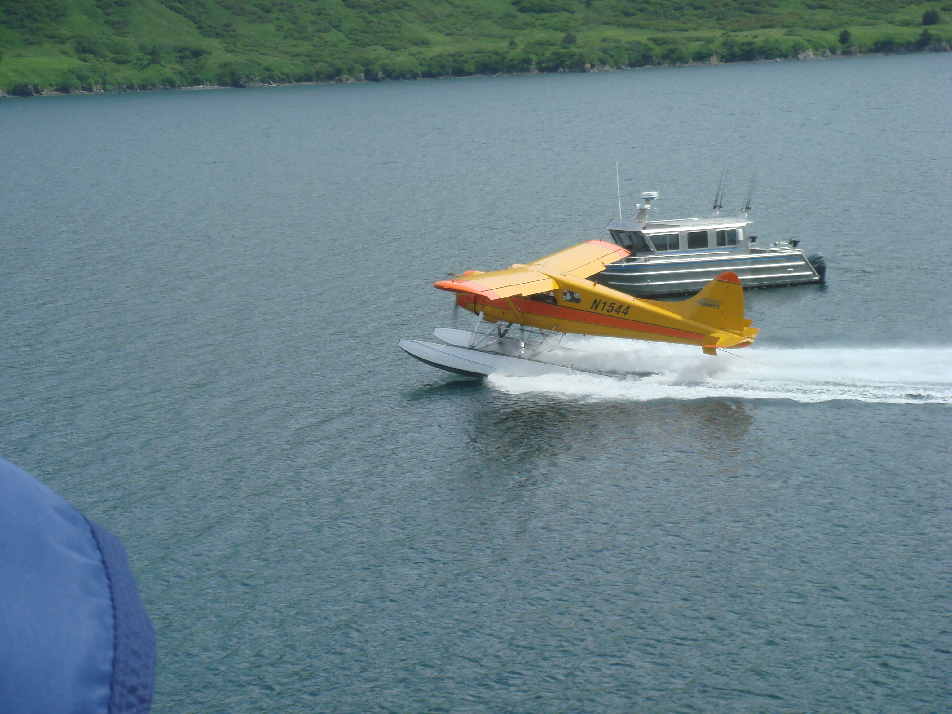 Transportation to and from Raspberry Island may only be had by either floatplane or boat.